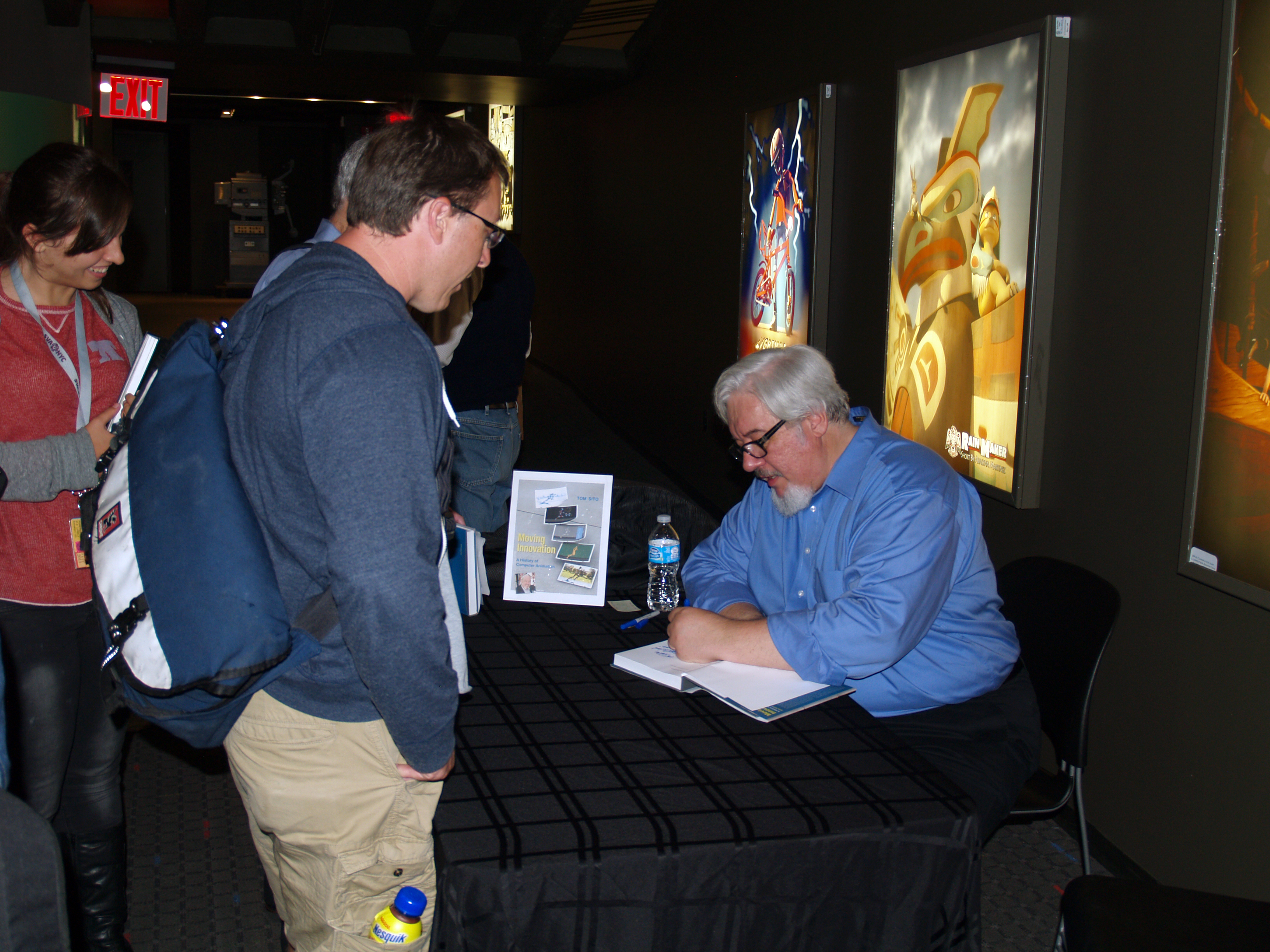 American animator Tom Sito during a September 16, 2013 signing for his book Moving Innovation: A History of Computer Animation. The signing, which took place at Manhattan's SVA Theatre, which is part of Sito's alma mater, the School of Visual Arts, followed a lecture on the history of computer animation . This photo was created by Luigi Novi. It is not in the public domain, and use of this file outside of the licensing terms is a copyright violation.